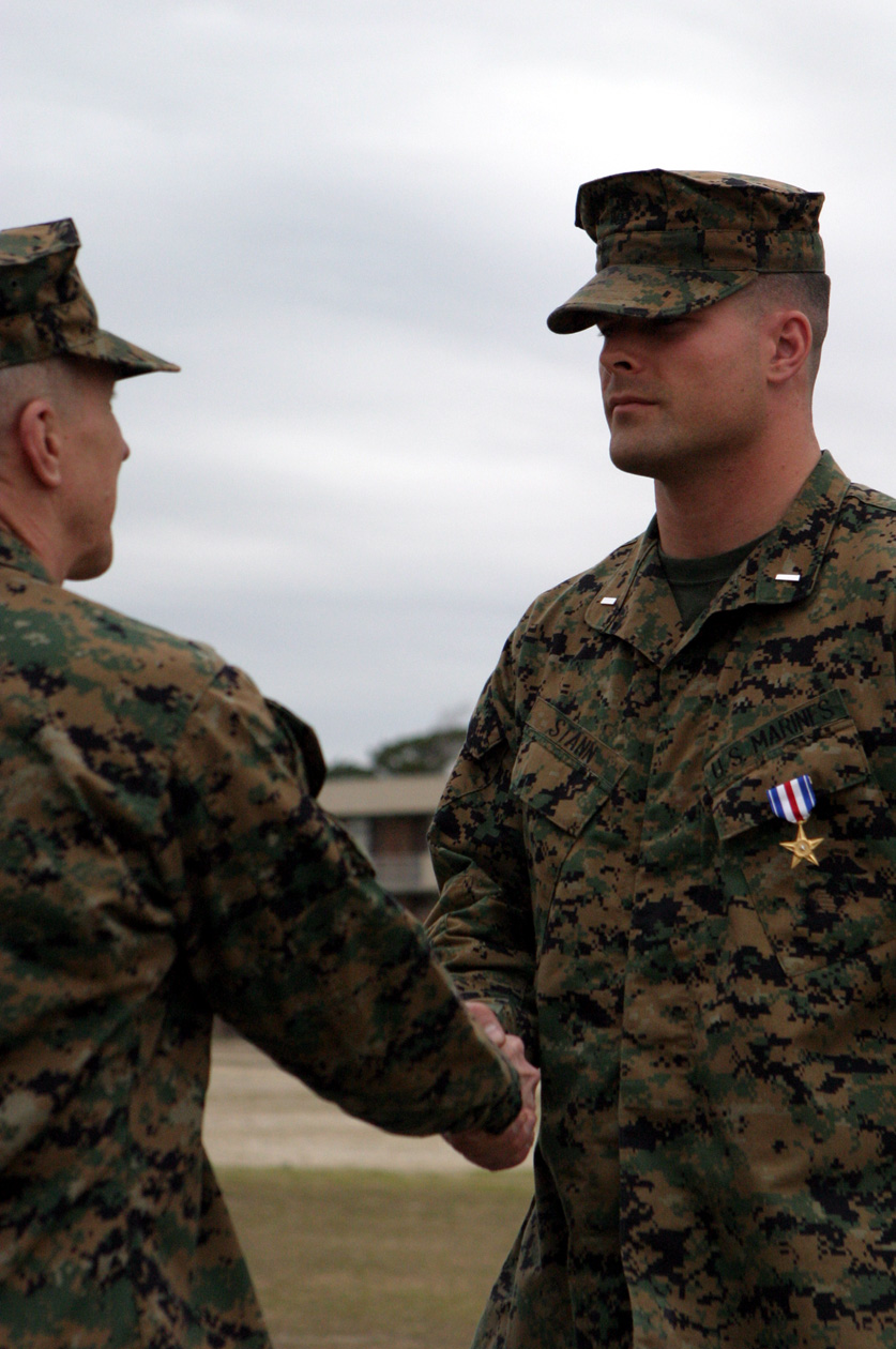 MARINE CORPS BASE CAMP LEJEUNE, N.C. - The Silver Star Ceremony commenced as 1st Lt. Brian M. Stann, Weapons Company Commander, shook Maj. Gen. Richard Huck, 2nd Marine Division Commanding General. Stann was being recognized and honored in front of the battalion for a job well done when he went above and beyond the call of duty to keep his men alive and eliminate the enemy forces along the way during Operation Matador. Photo by Cpl. Athanasios L. Genos